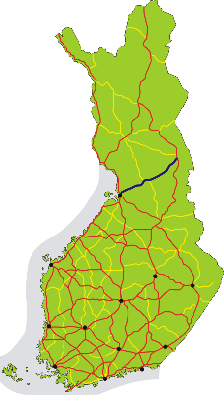 Map of the main road 20 in Finland, shown in dark blue. The other 1st class main roads (numbers 1–29) are red, 2nd class main roads (numbers 40–98) yellow. Black dots show the 12 biggest urban areas.